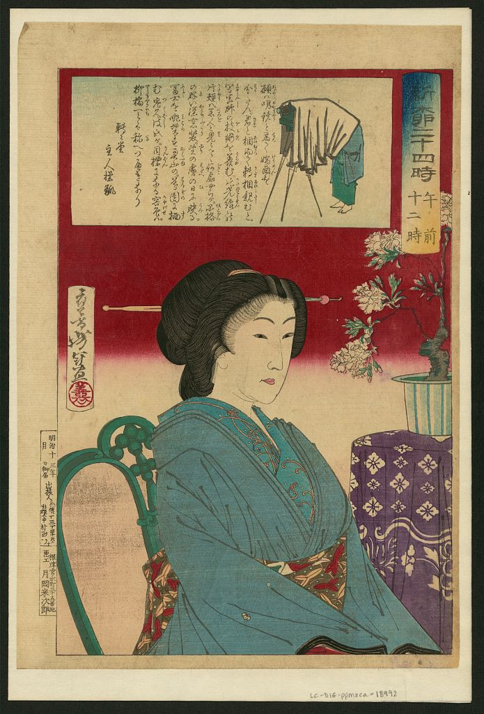 Photographer and subject, in Yokohama, Japan 12 noon. - Geisha posing for photograph. - No. 12 of the series: Twenty-Four Hours at Shinbashi and Yanagibashi (Shinryu nijushi toki)[1]